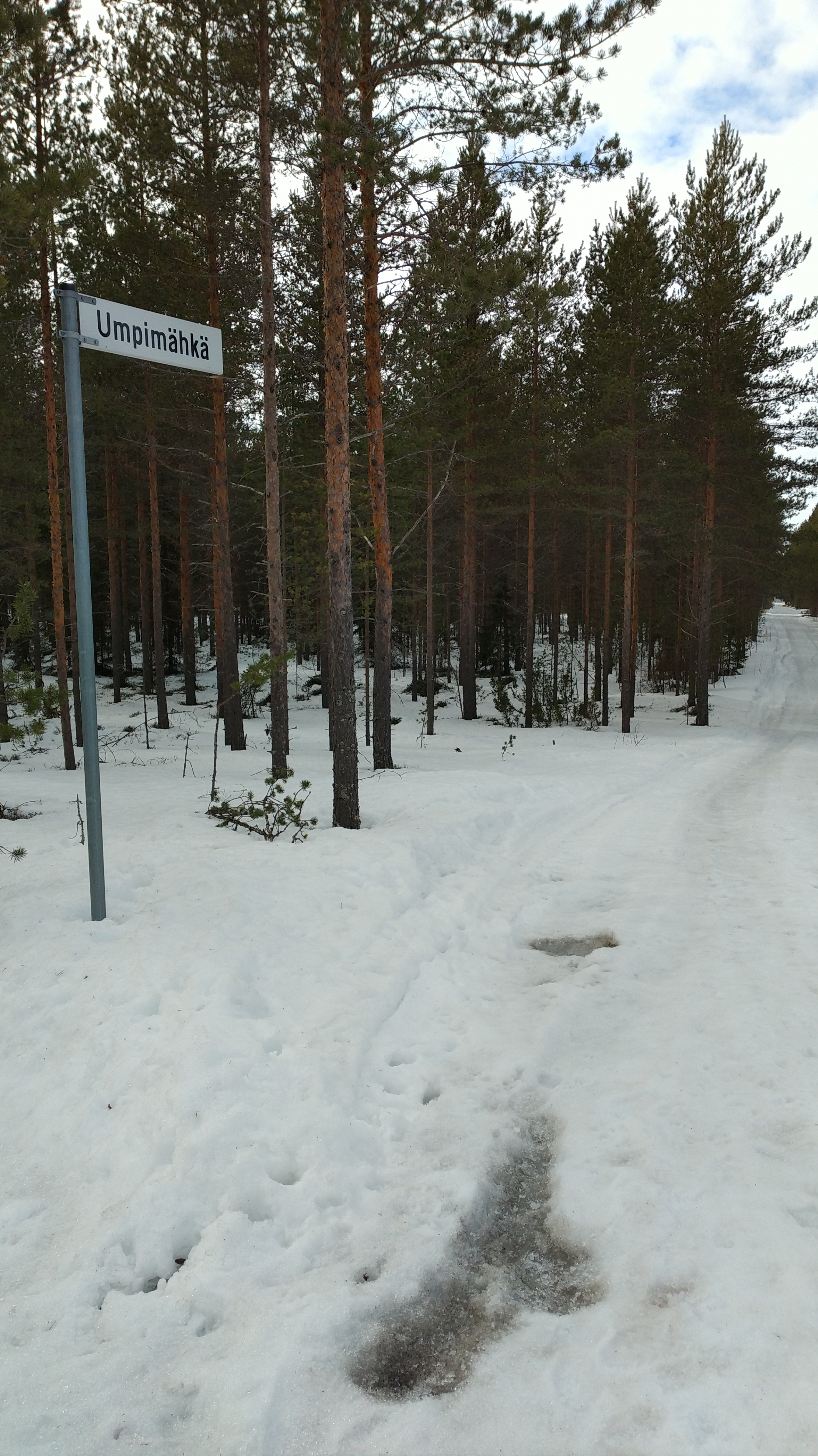 The street named to Umpimähkä (Arbitrary) in Salonpää, Oulunsalo, Oulu, Finland